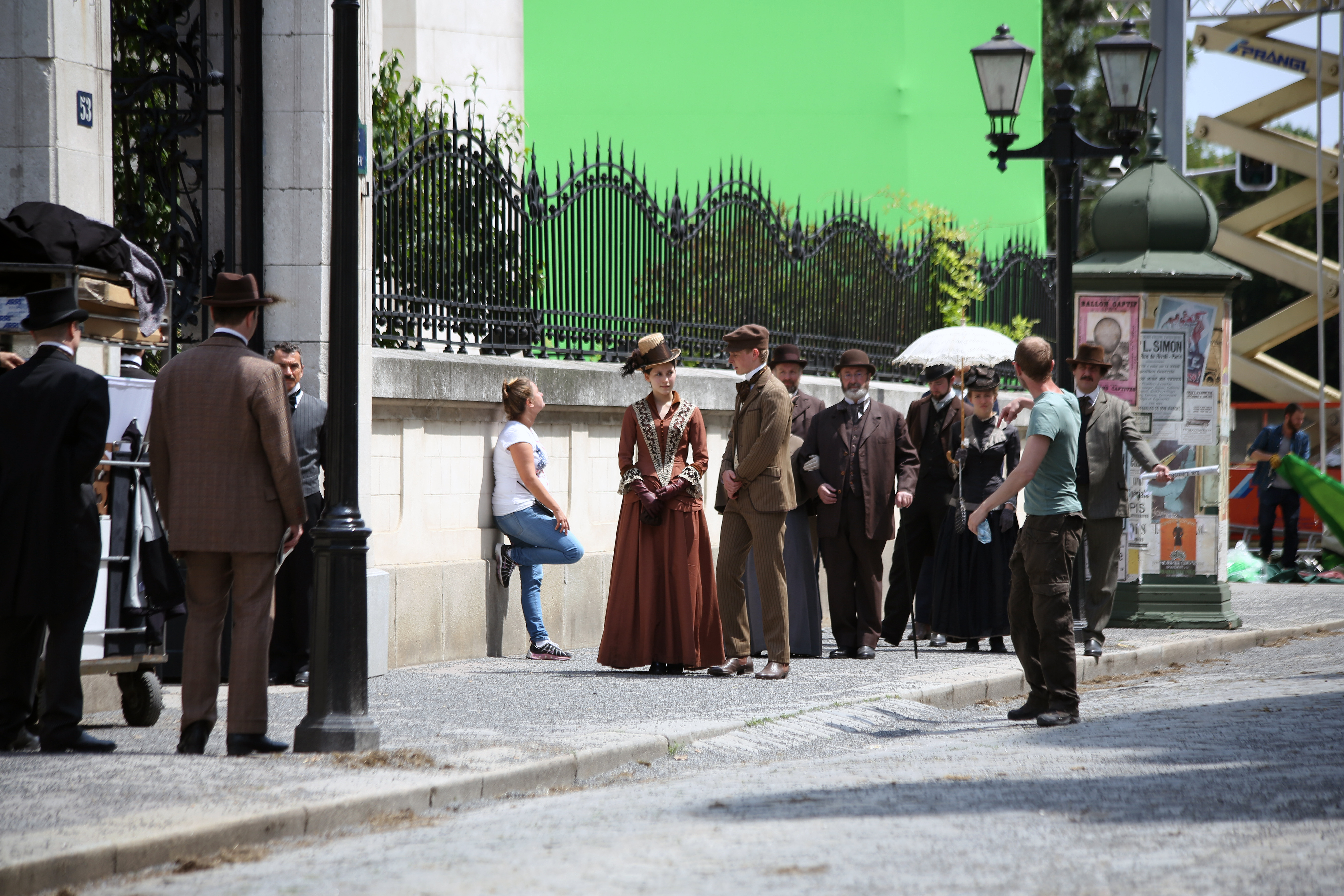 Filming of the movie Madame Nobel in and around the Embassy of France in Vienna (Vienna, Austria).